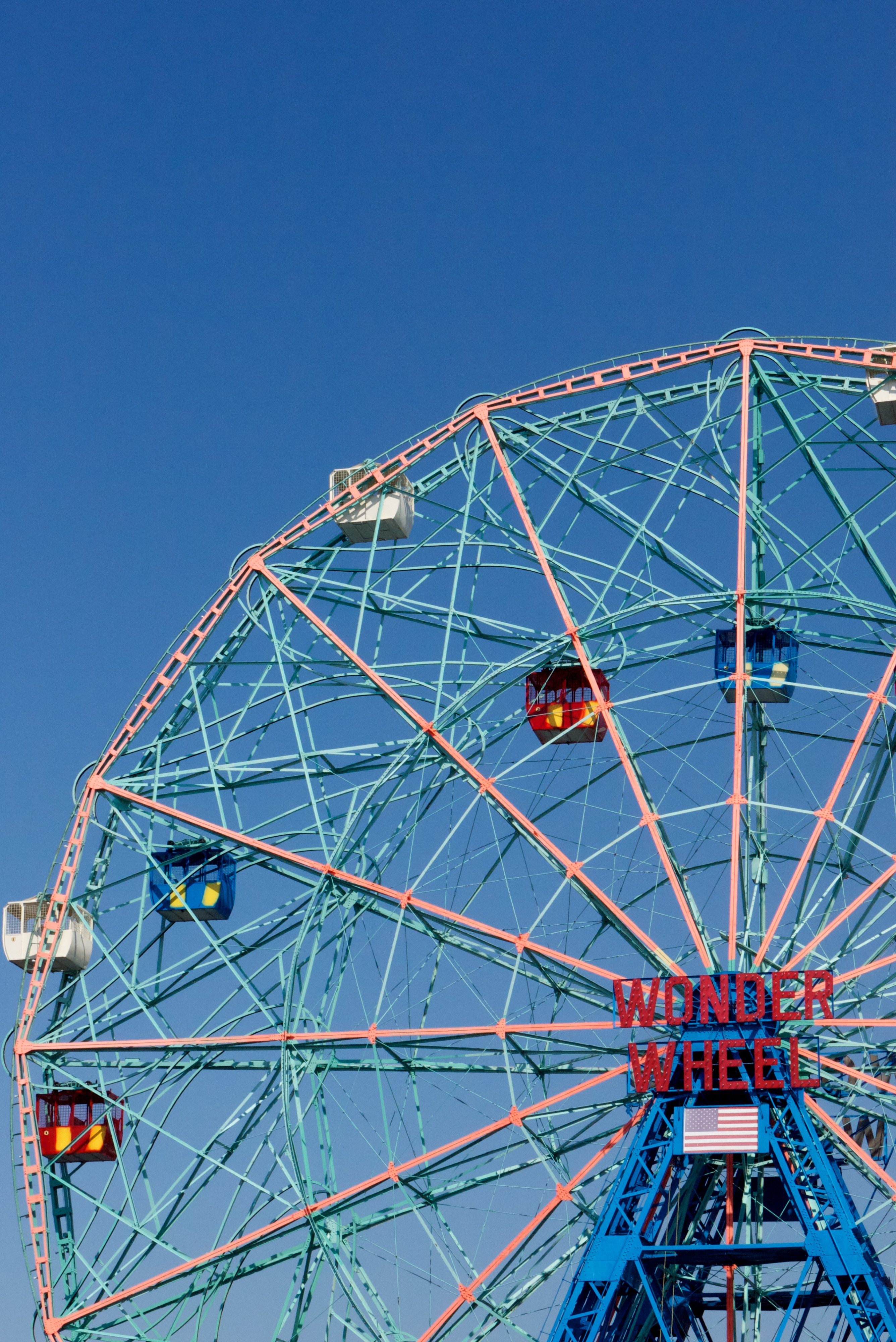 Wonder Wheel detail.